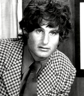 Zalman King, 1971 press photo for The Young Lawyers